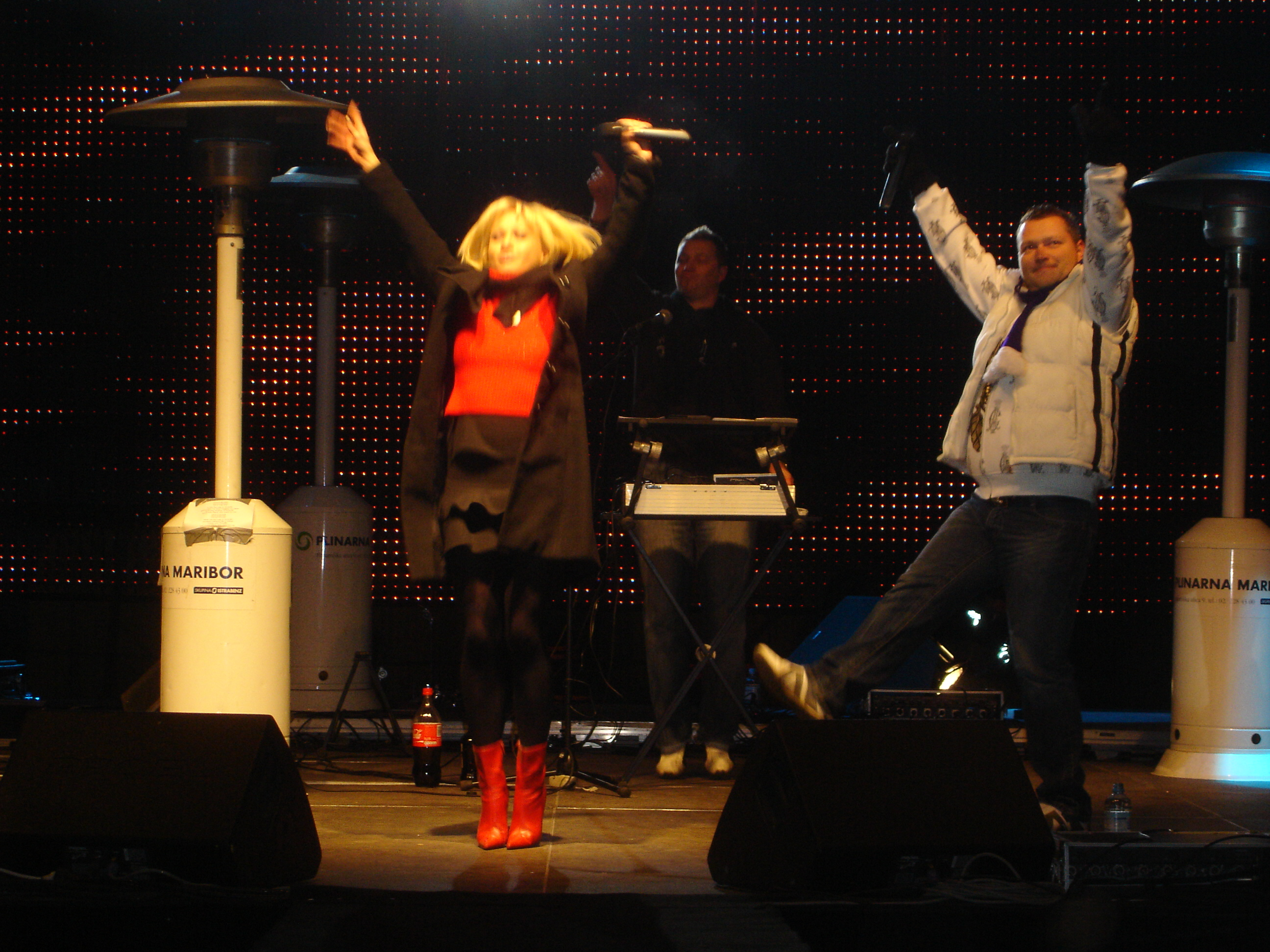 Skater performing on the new year occasion on Grajski trg in Maribor. Katja Lesjak and Sašo Poštrak (Samcy Jay).